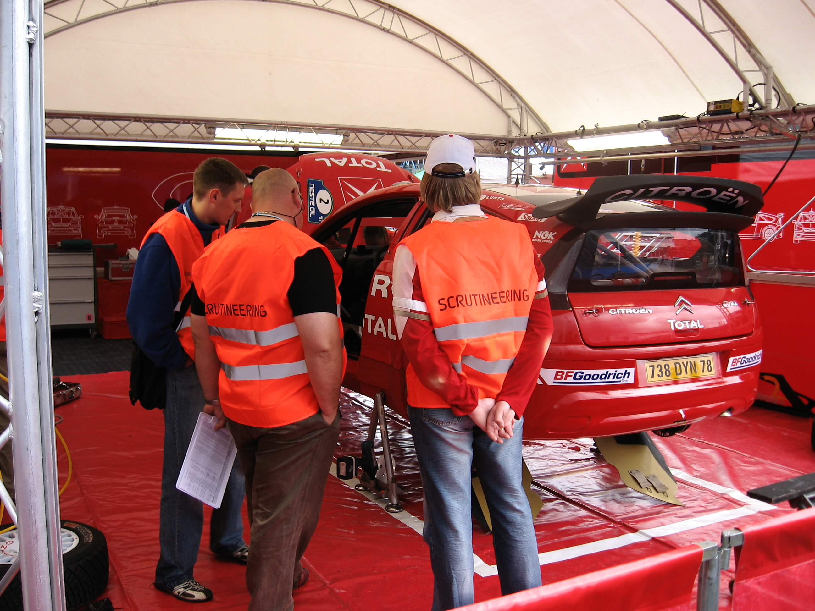 Preparations at the service park on wednesday during the 2007 Rally Finland.